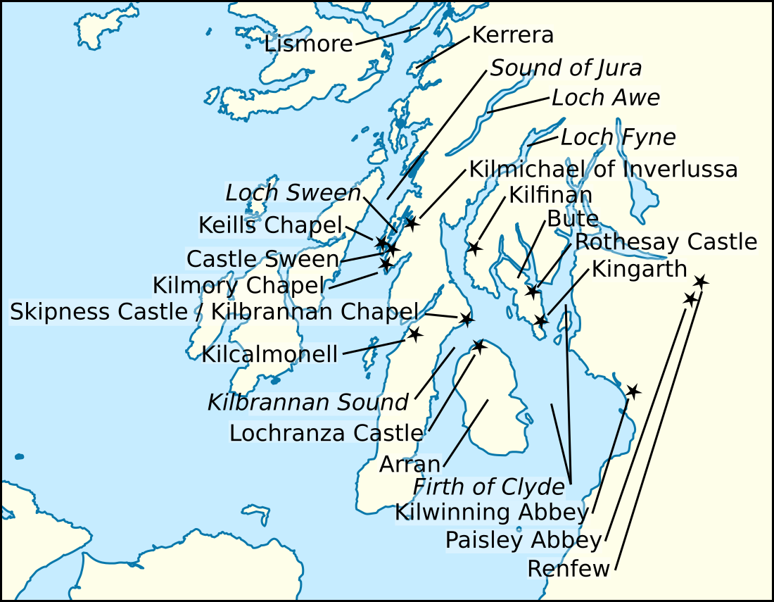 Map for the Wikipedia article concerning Dubhghall mac Suibhne.